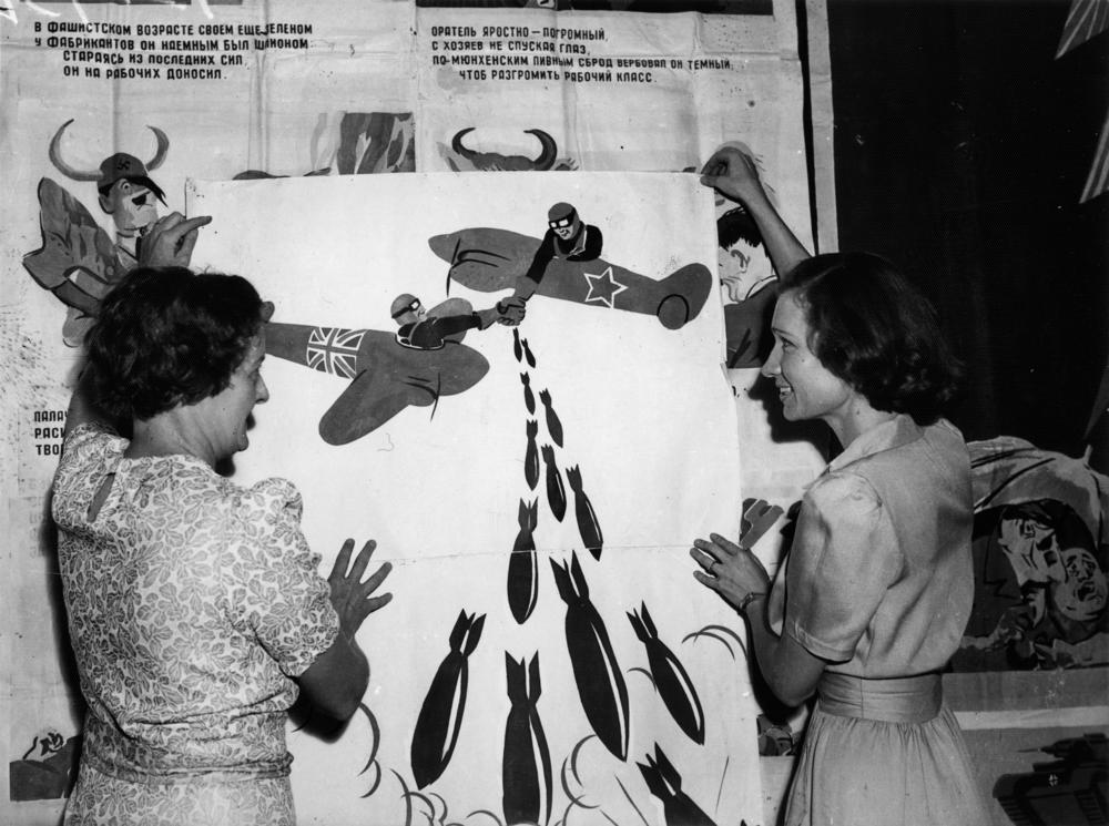 Russian poster art on display at the Canberra Hotel, Brisbane, November 1942. Examples of Russian poster art on display in the Banquet Hall of the Canberra Hotel. (Description taken from: Courier Mail, 24 November 1942, p. 3).